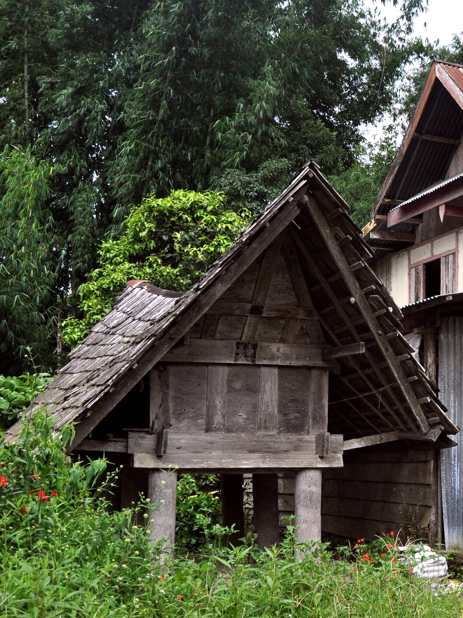 Banga (Pigafetta elata) trunks, used as supporting poles of traditional ricebarn in Mamasa, West Sulawesi, Indonesia.